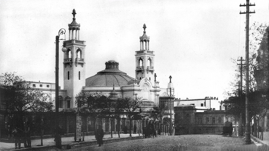 Club for Baku's elite (today - Philharmonic Hall)